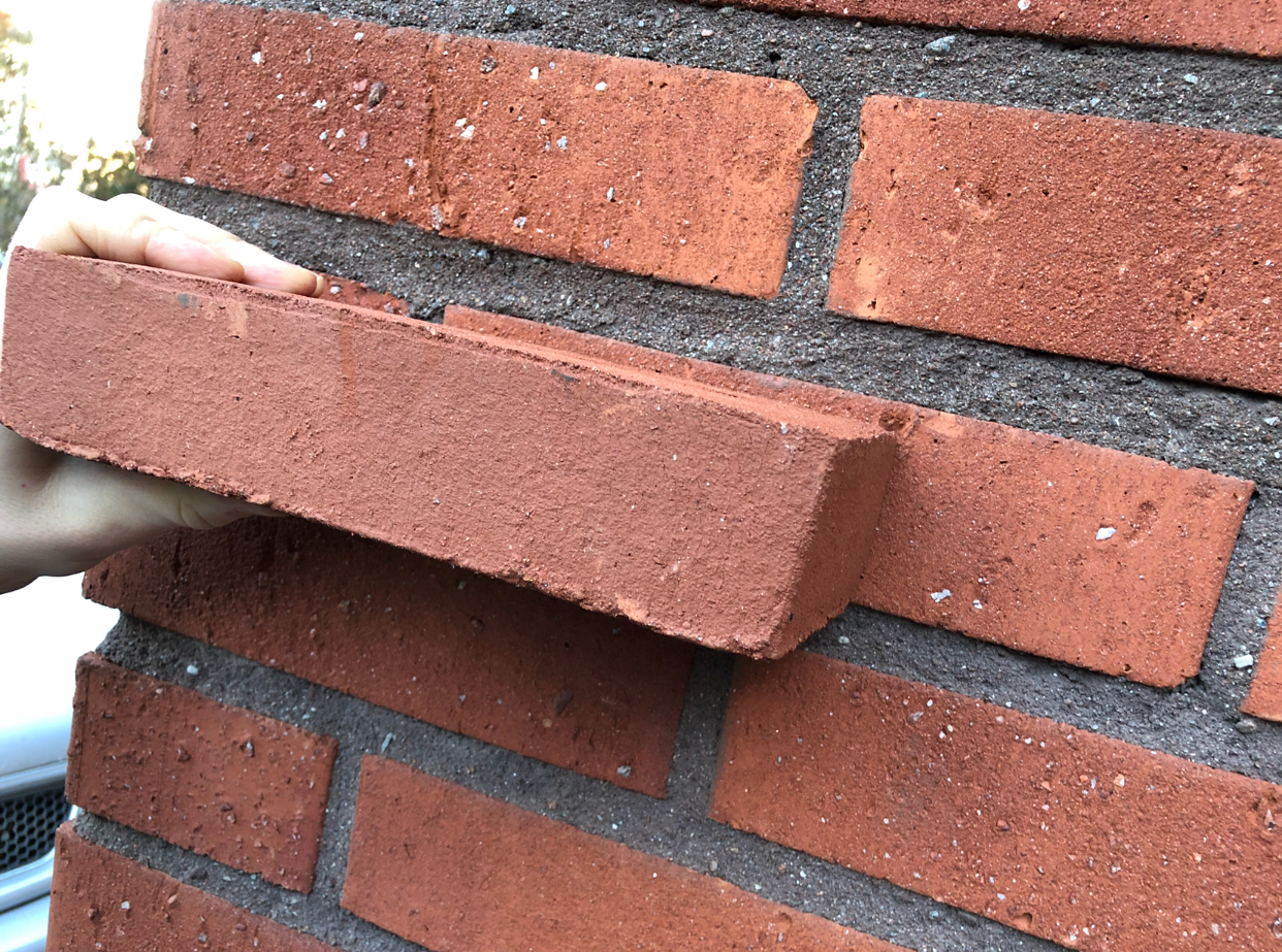 Red brick on a house wall